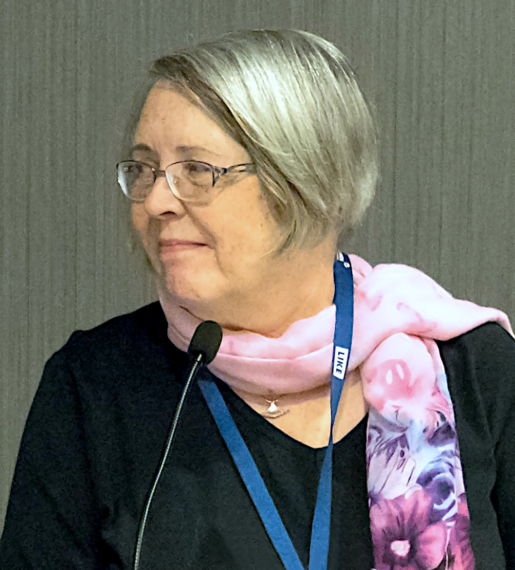 World Science Fiction Convention in Helsinki, 2017. Fandom Keeps You Young at Heart! Robert Silverberg, Gay Haldeman and Liisa Rantalaiho